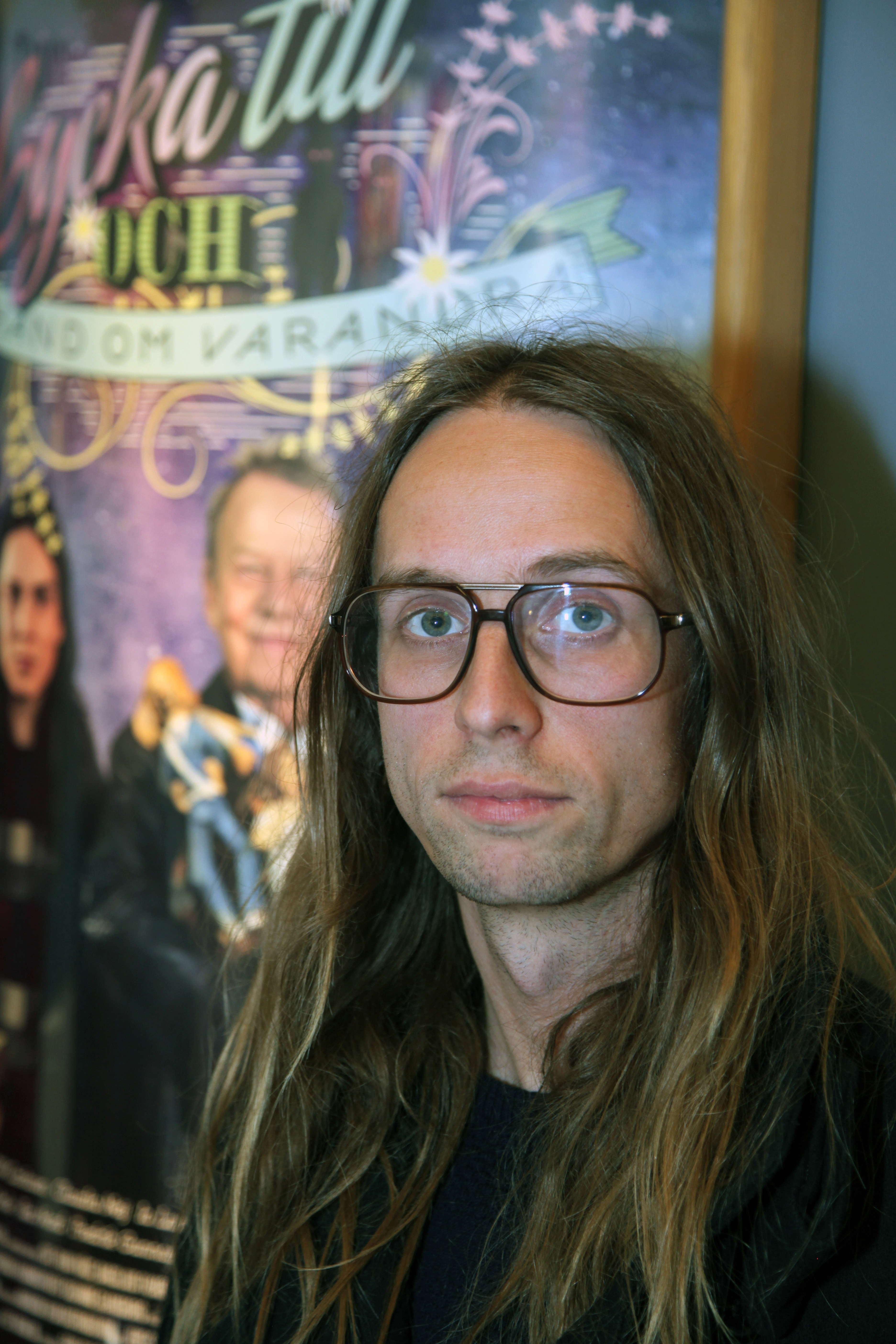 Jens Sjögren, 2012.